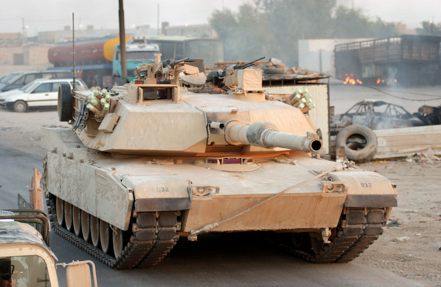 A U.S. Marine Corps M1 Abrams Main Battle Tank (MBT), 11th Marine Expeditionary Unit (MEU), Special Operations Capable (SOC), in convoy along the streets of An Najaf, An Najaf Province, Iraq, on Aug. 12, 2004, during a raid of the Muqtada Militia strong points in the area.